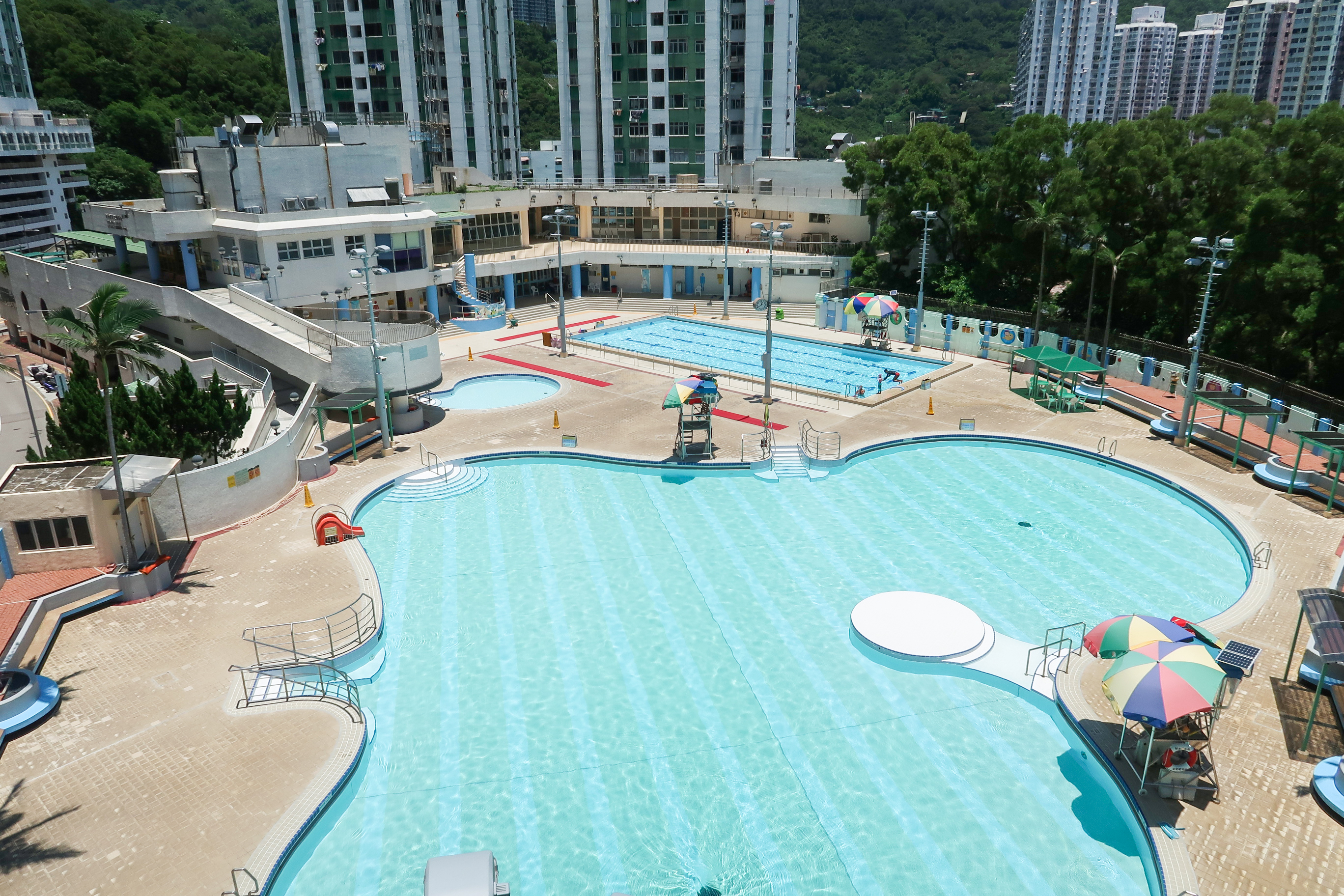 Tsuen King Circuit Wu Chung Swimming Pool